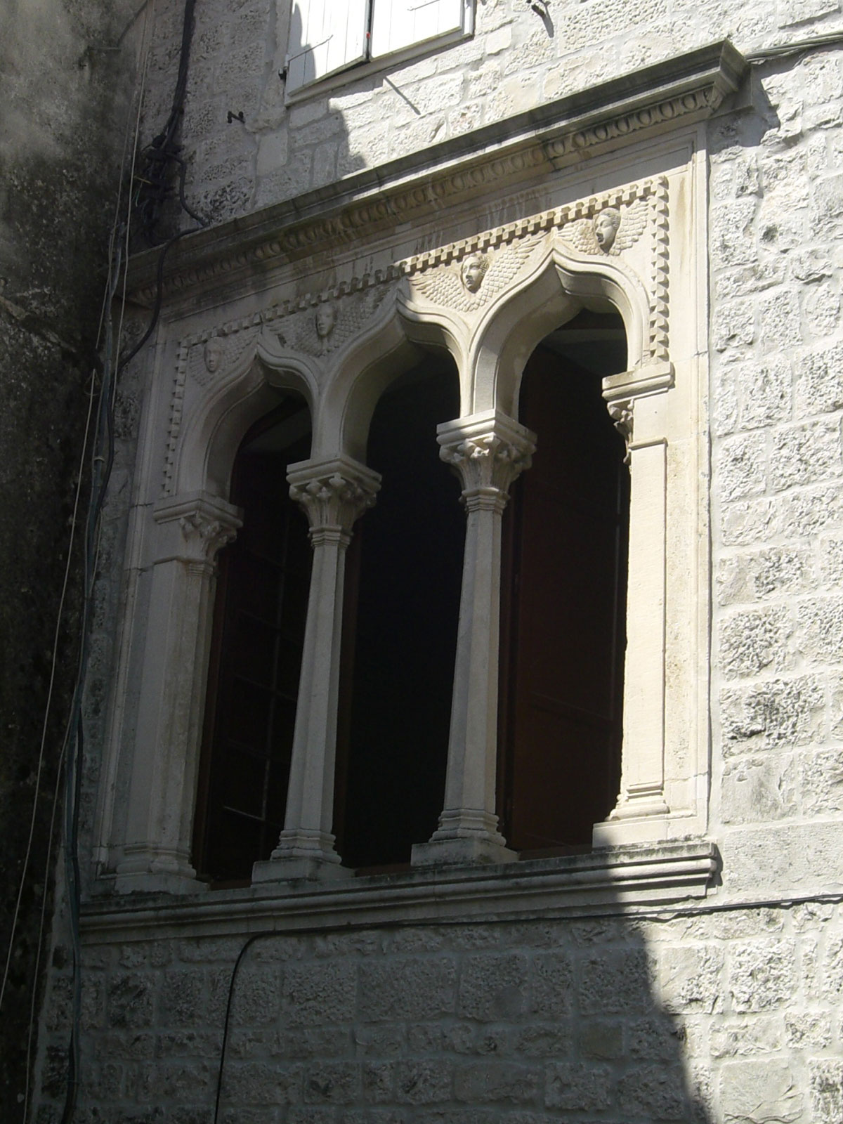 Trogir - windows on Cipiko pallace